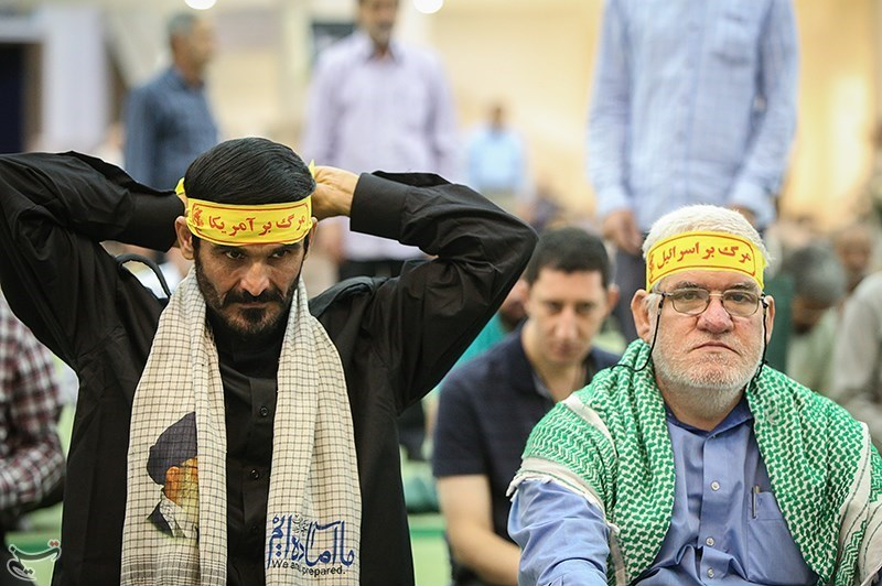 Hamidreza Ahmadabadi